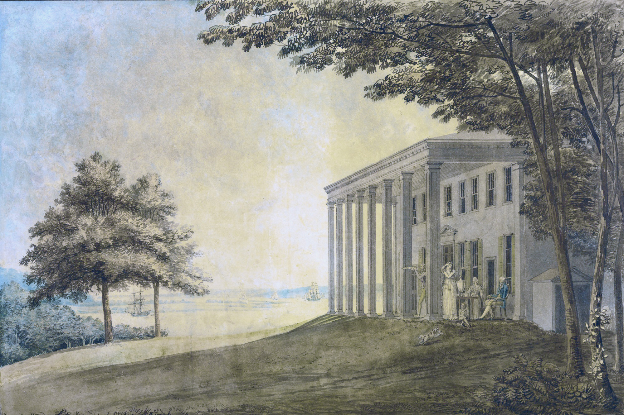 A view on Mount Vernon with the Washington family on the terrace watercolor, pen and ink on paper 16 3/8 x 24 inches signed b.: Benjamin Henry Latrobe nat. del. July 16, 1796